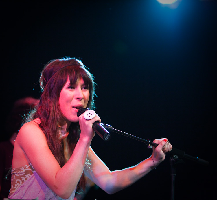 Tara struts her stuff on stage in New Mexico.